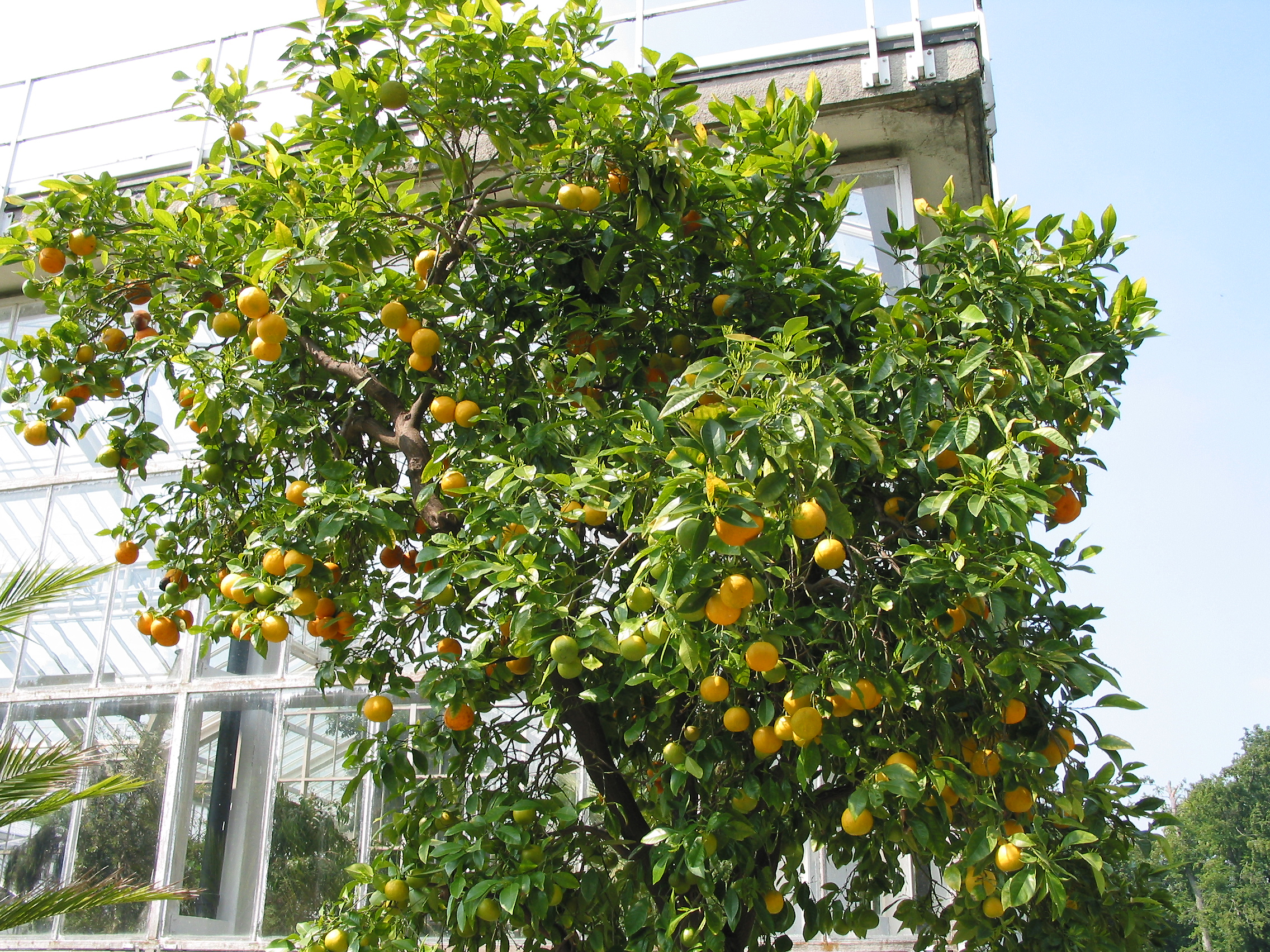 Meise (Belgium), National Garden of Belgium - Plant Palace - Citrus sinensis - Orange tree.